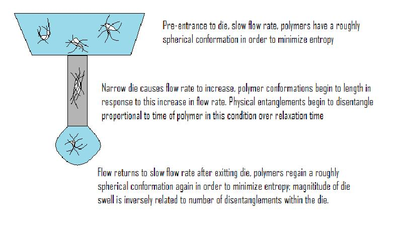 Polymer Die Swell Illustration